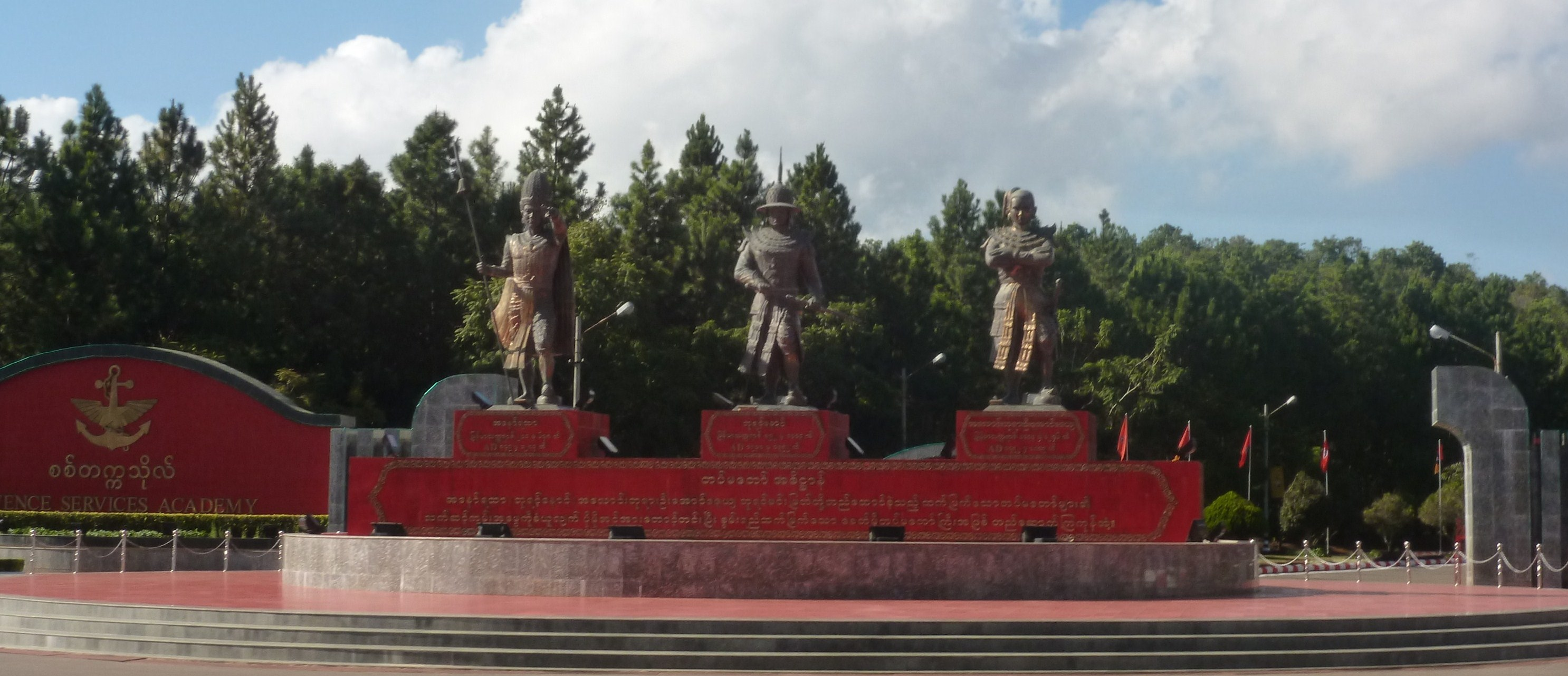 Statues of three greatest Burmese monarchs at the front gate of DSA: (left to right) Anawrahta, Bayinnaung, Alaungpaya